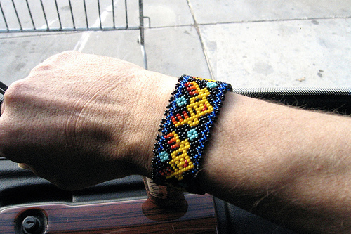 Photo by Ottmar Liebert from Flickr Attribution-ShareAlike 2.0